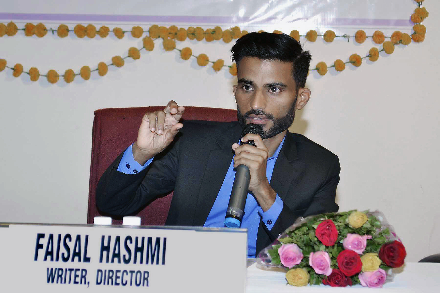 Faisal at the event organized by "Ahmedabad Management Association".